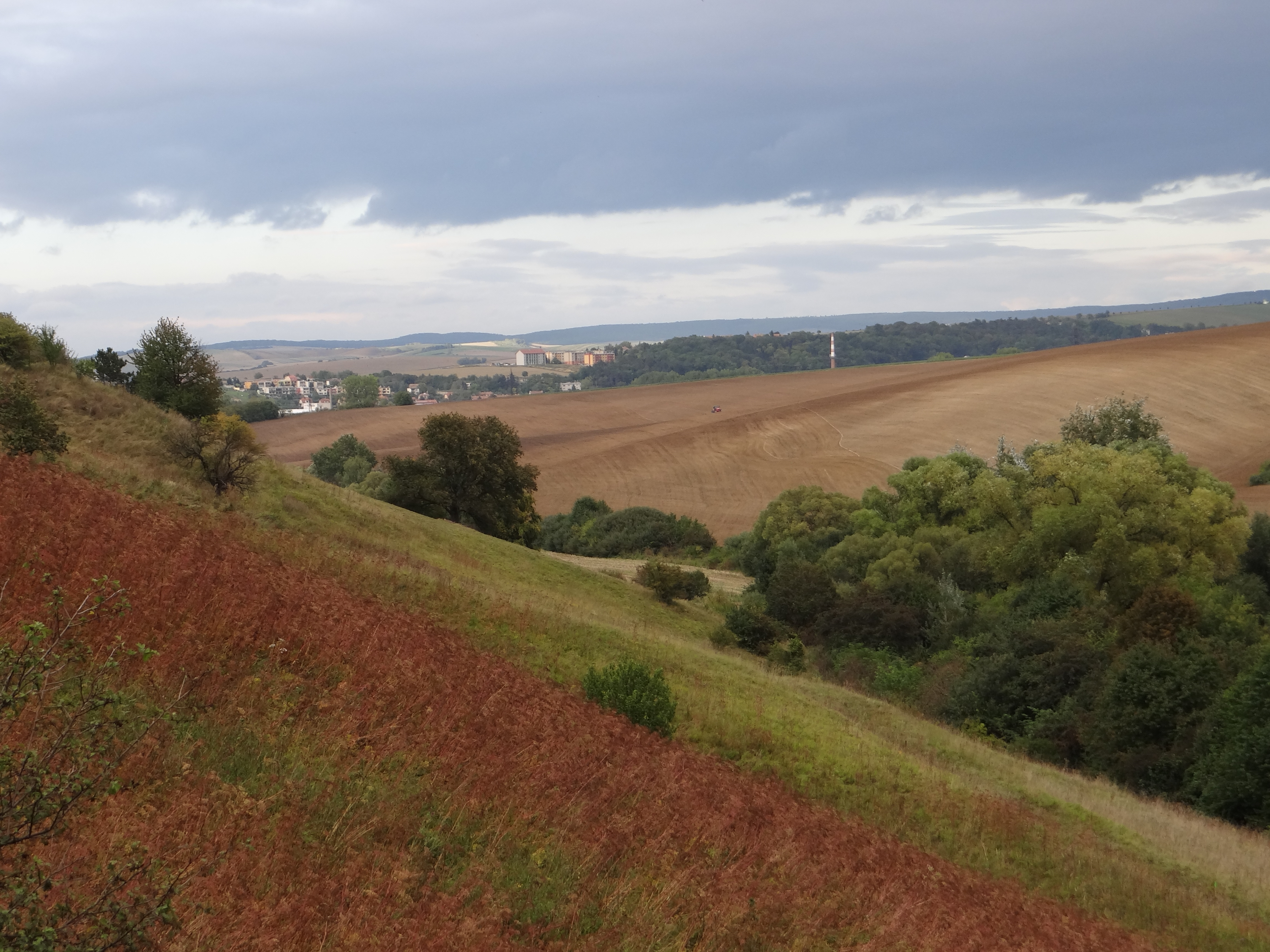 Nature reserve Šévy near Mouřínov, Vyškov District, Czech Republic